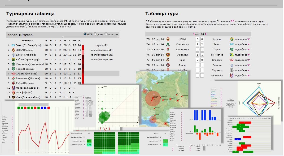 interactive infographic for football